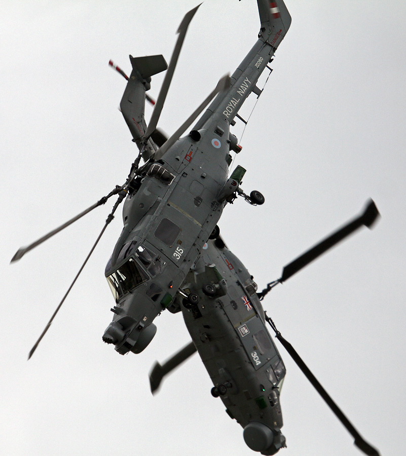 Royal Navy Blackcats display team at Yeovilton June 2012